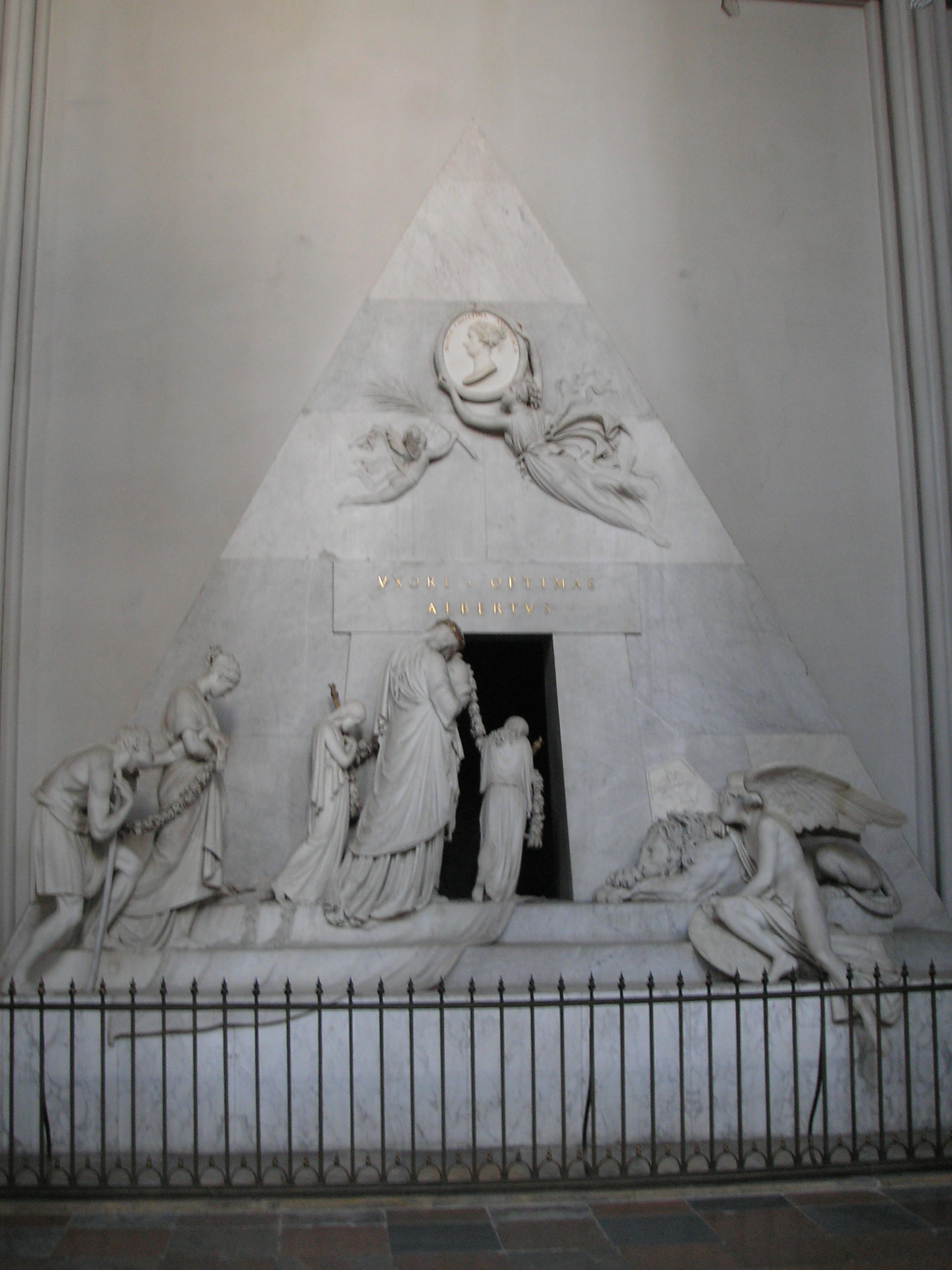 Cenotaph inside the Augustinerkirche in Vienna of Archduchess Maria Christina, Duchess of Teschen.